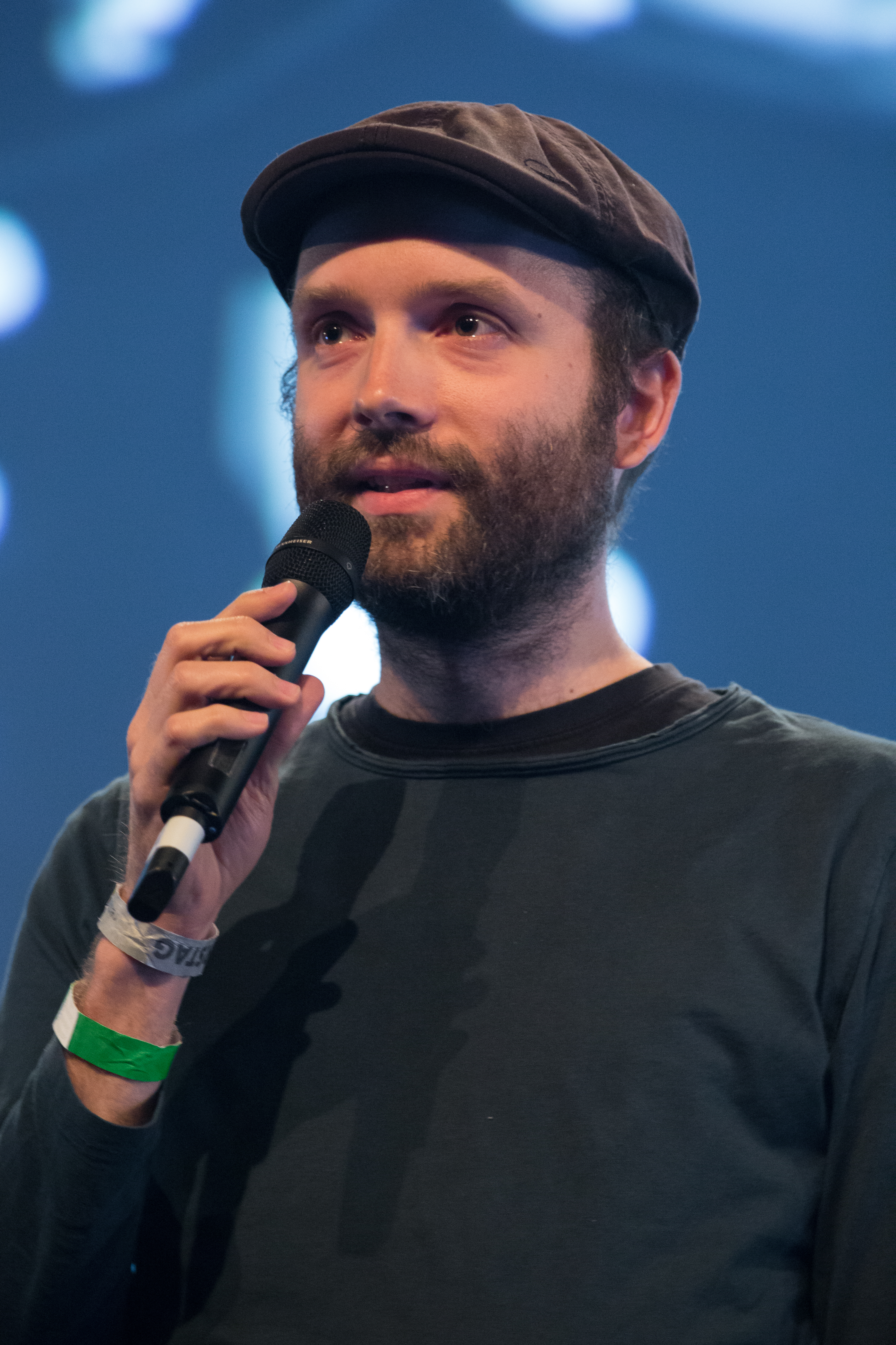 Marc-Uwe Kling at the :Re:publica 18